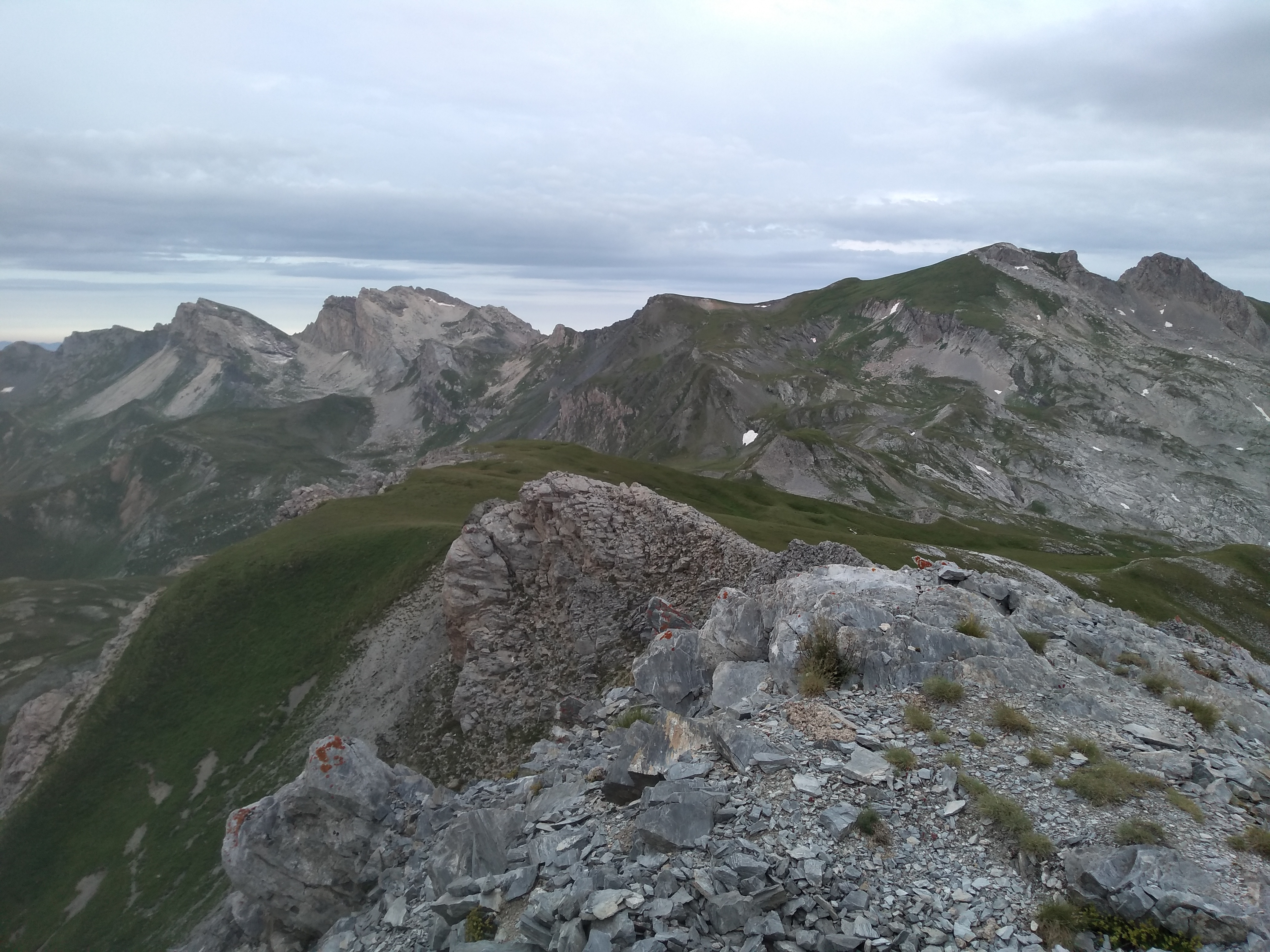 View of the highest peaks on Korab Mountain, Macedonia